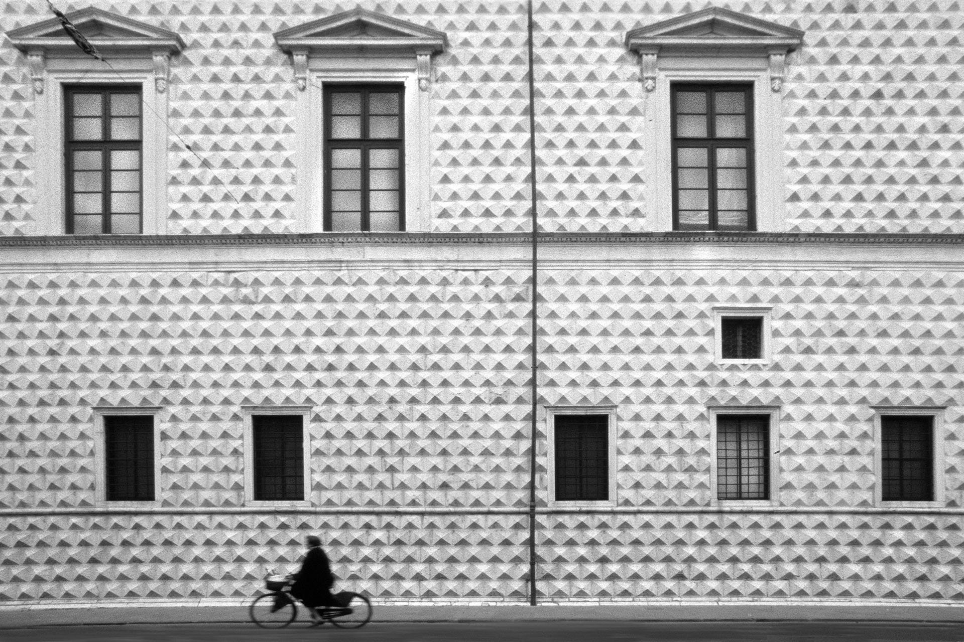 Palazzo dei Diamanti in Ferrara, Italy This is a photo of a monument which is part of cultural heritage of Italy.